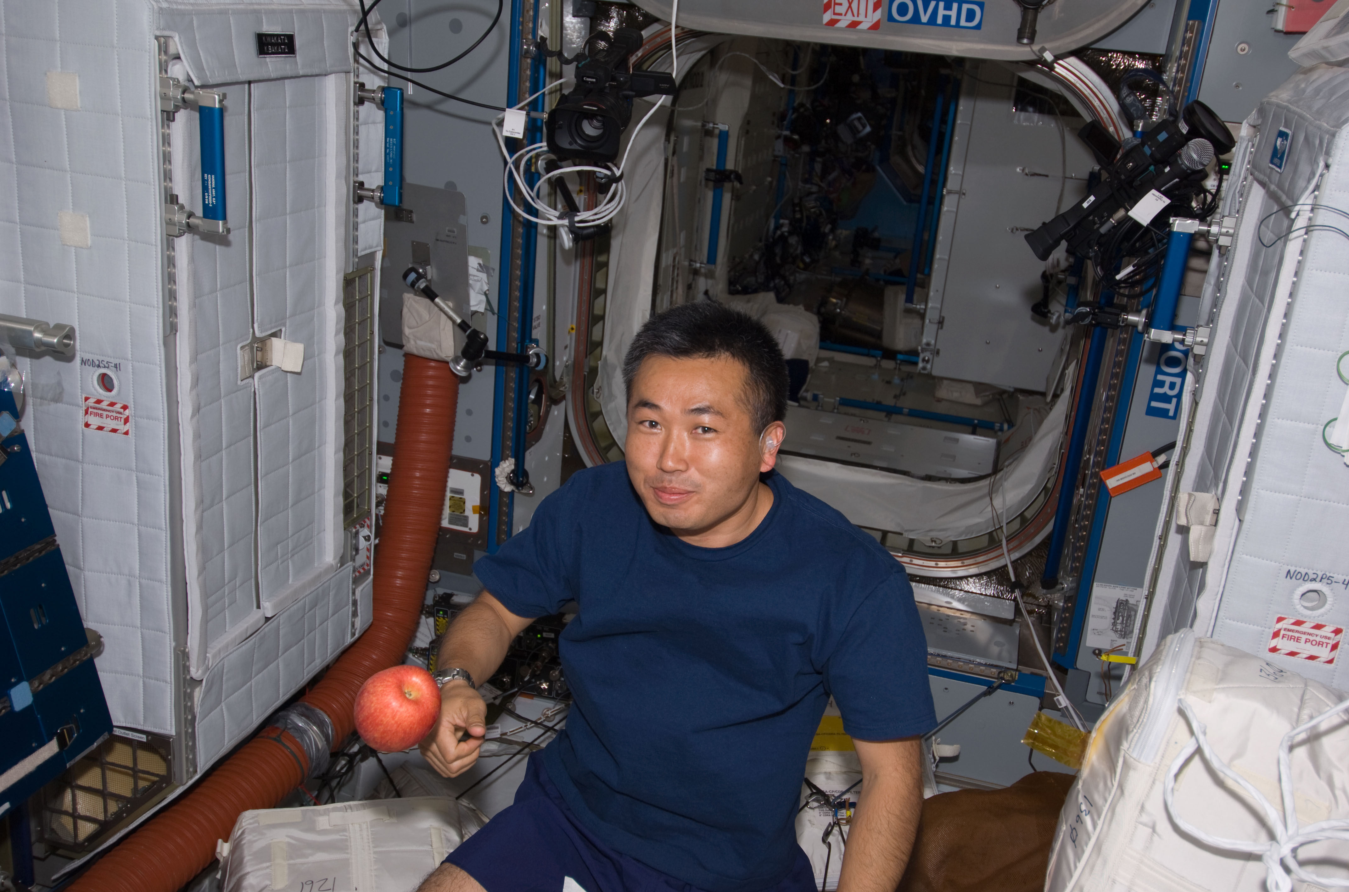 Japan Aerospace Exploration Agency's Koichi Wakata, pictured here on the International Space Station, changes over from STS-119 mission specialist to an ISS flight engineer for a tour aboard the orbital outpost.